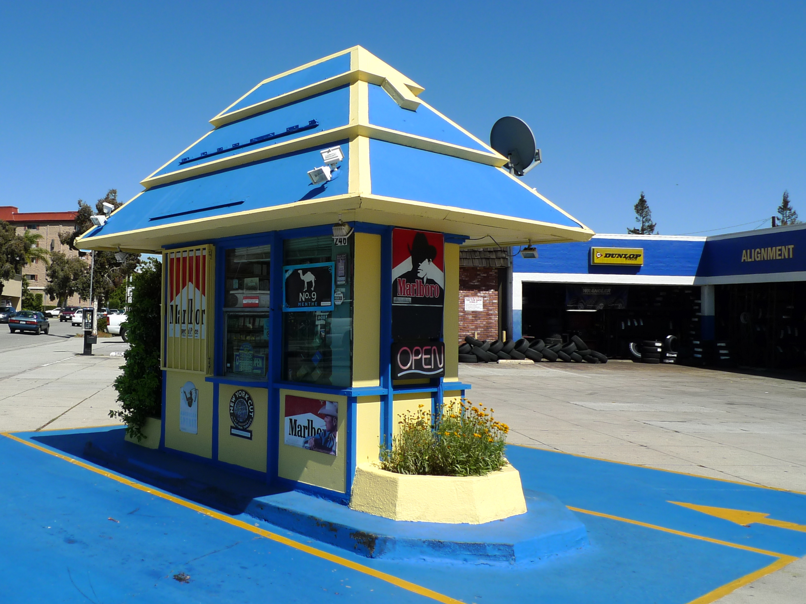 A former Fotomat drive-through kiosk in Glendale, California, now a cigarette kiosk.